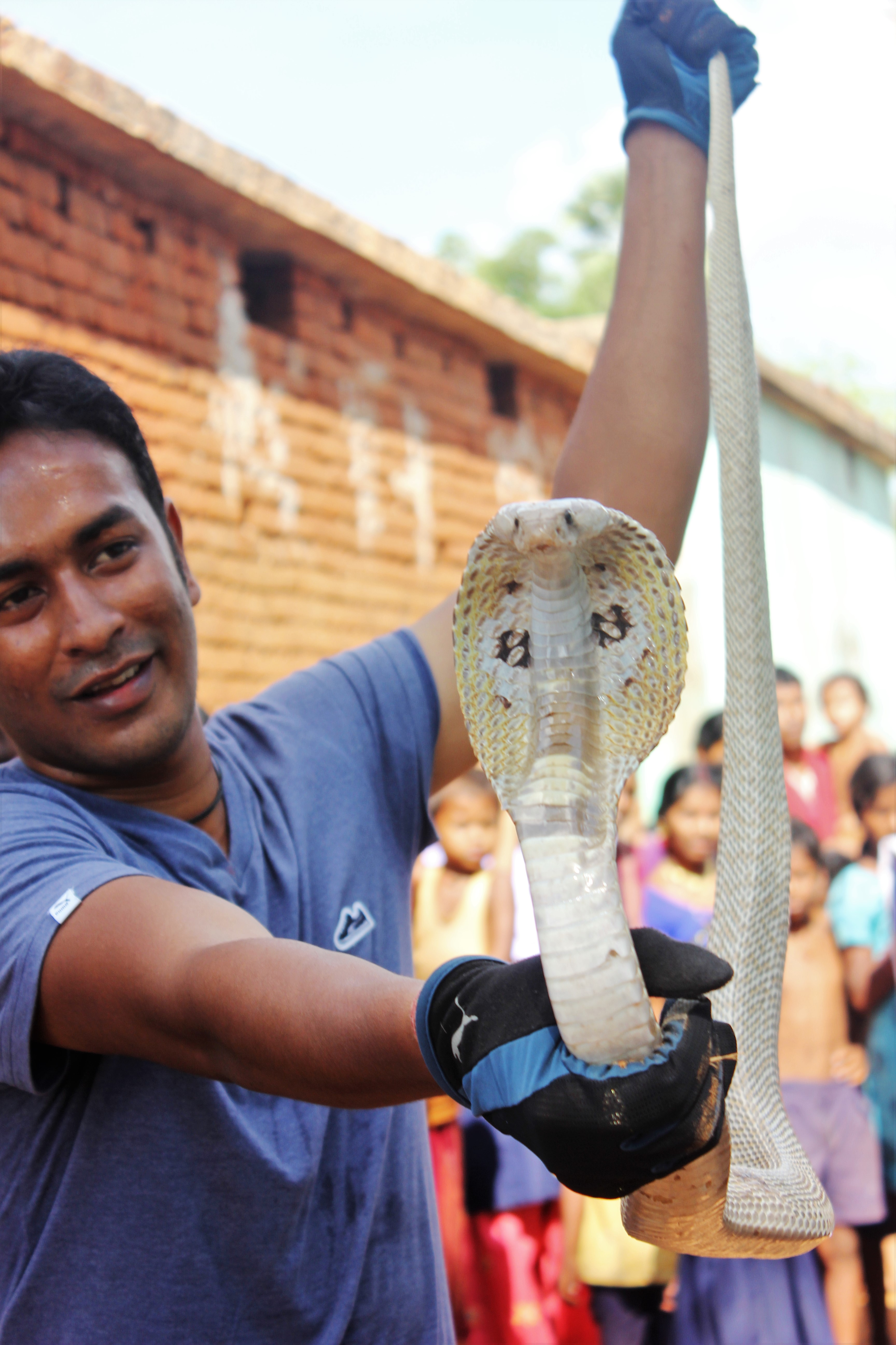 A 6.5 ft cobra captured in a village near Patnagarh town of Odisha state of India